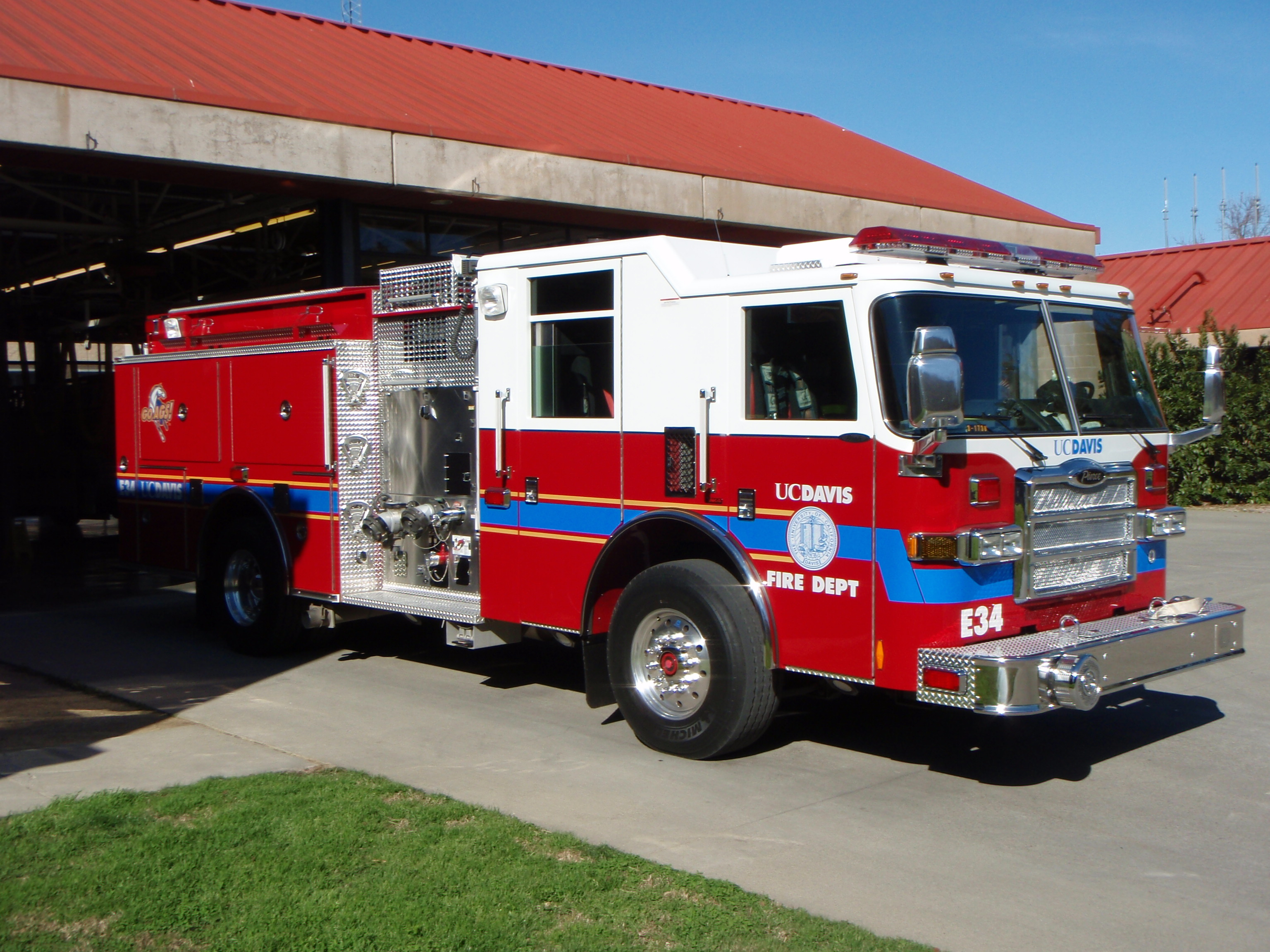 UC Davis Fire Department Engine 34 2007 Pierce